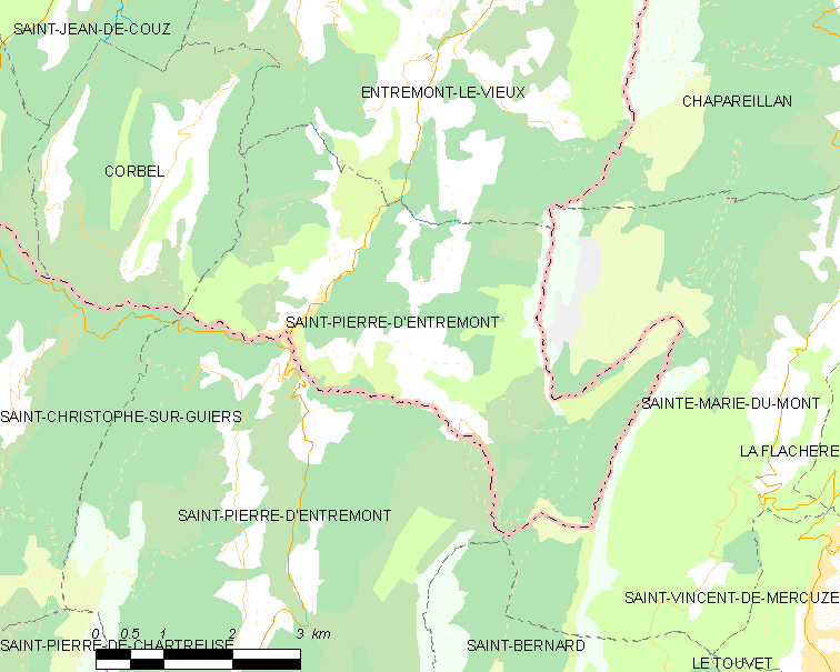 Map of French municipality Saint-Pierre-d'Entremont